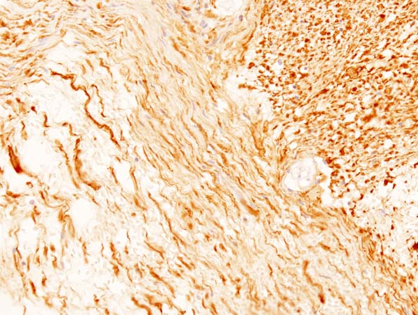 Histopathologic image of schwannoma of the subcutis, representing an Antoni B type. The same case as shown in a file "Subcutaneous_schwannoma_(1)_Antoni_B.jpg". S-100 immunostain.